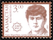 Stamp of Kazakhstan